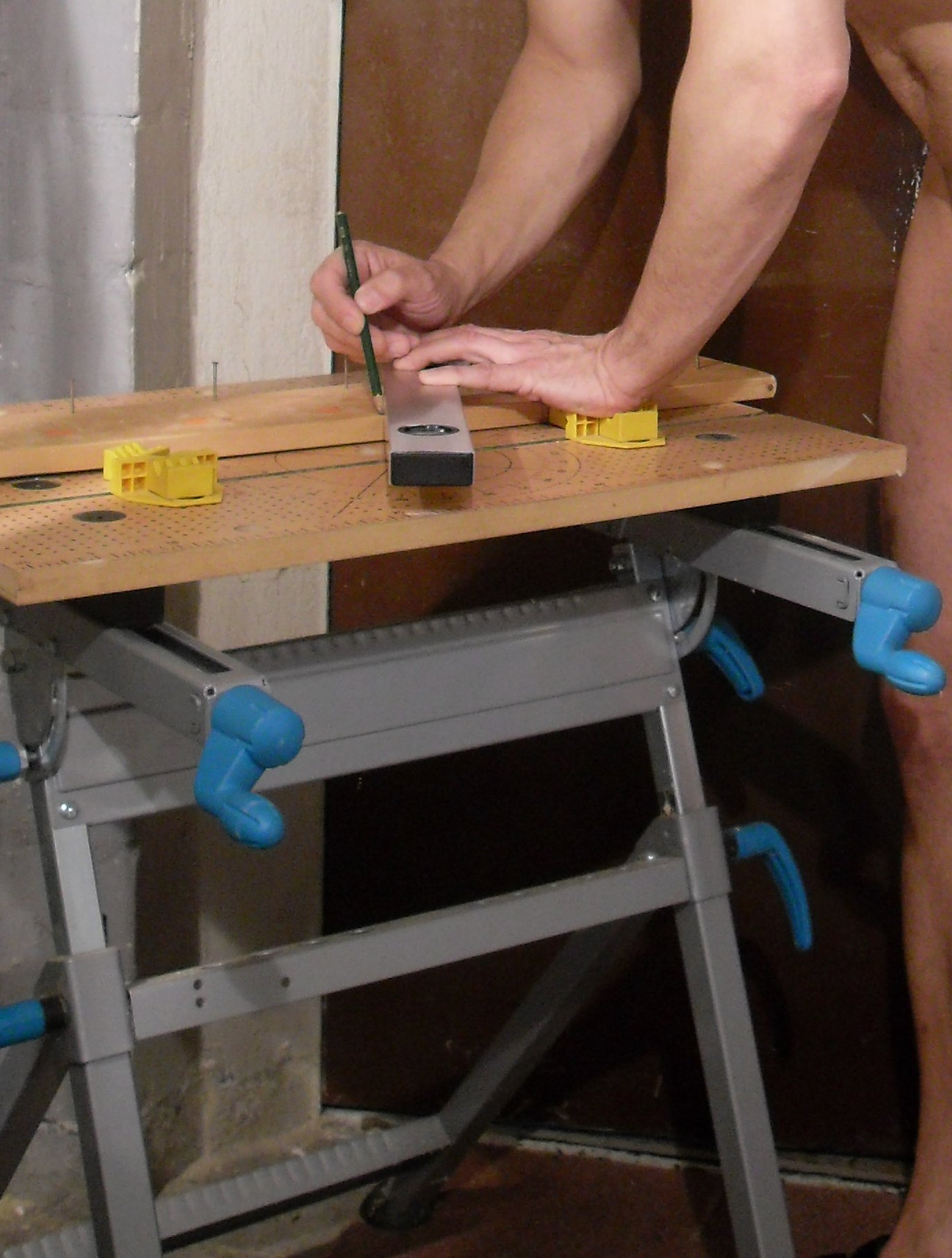 work bench for do it yourself wood work